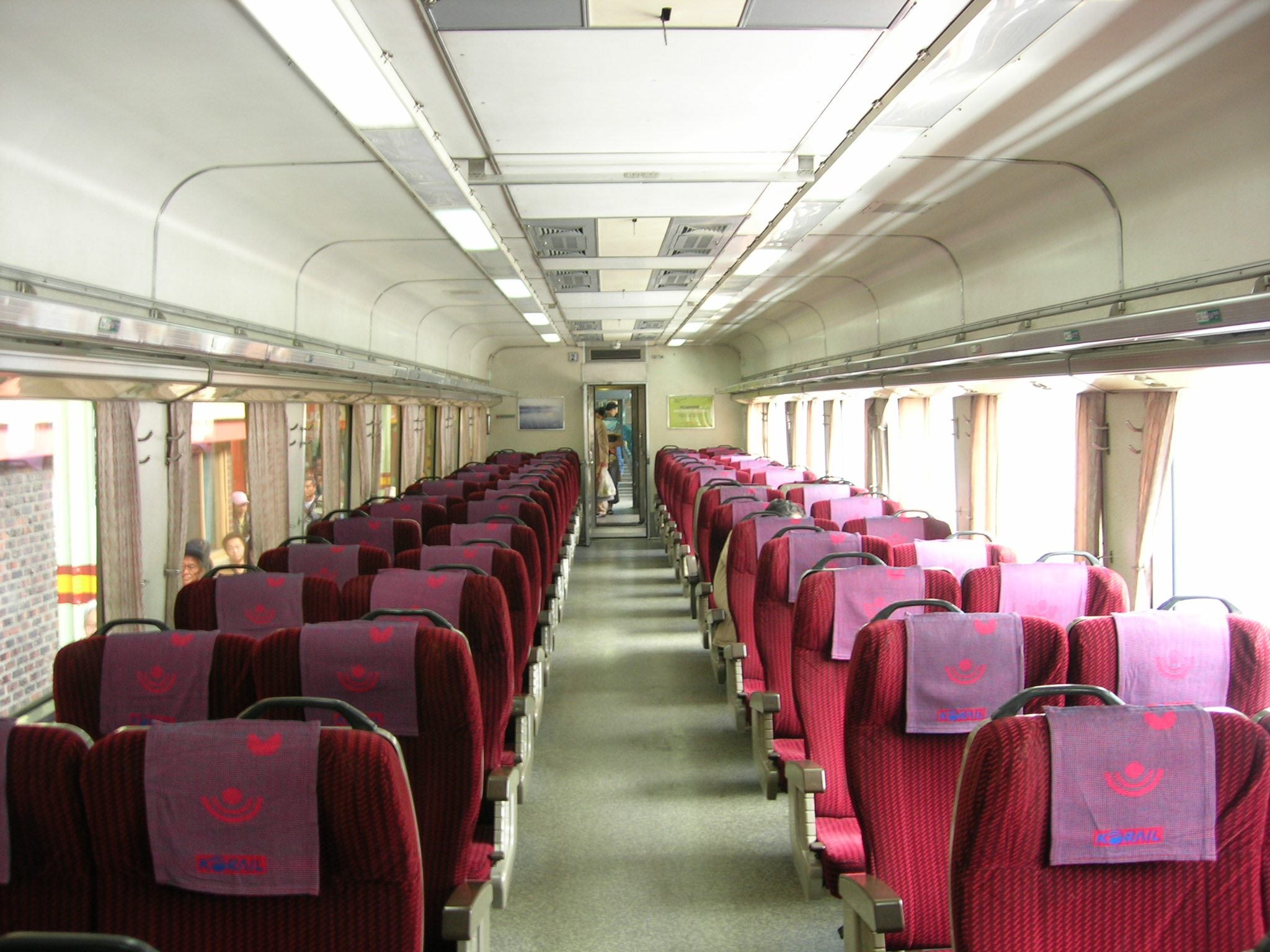 Korail Mugunghwa-ho train (beige).